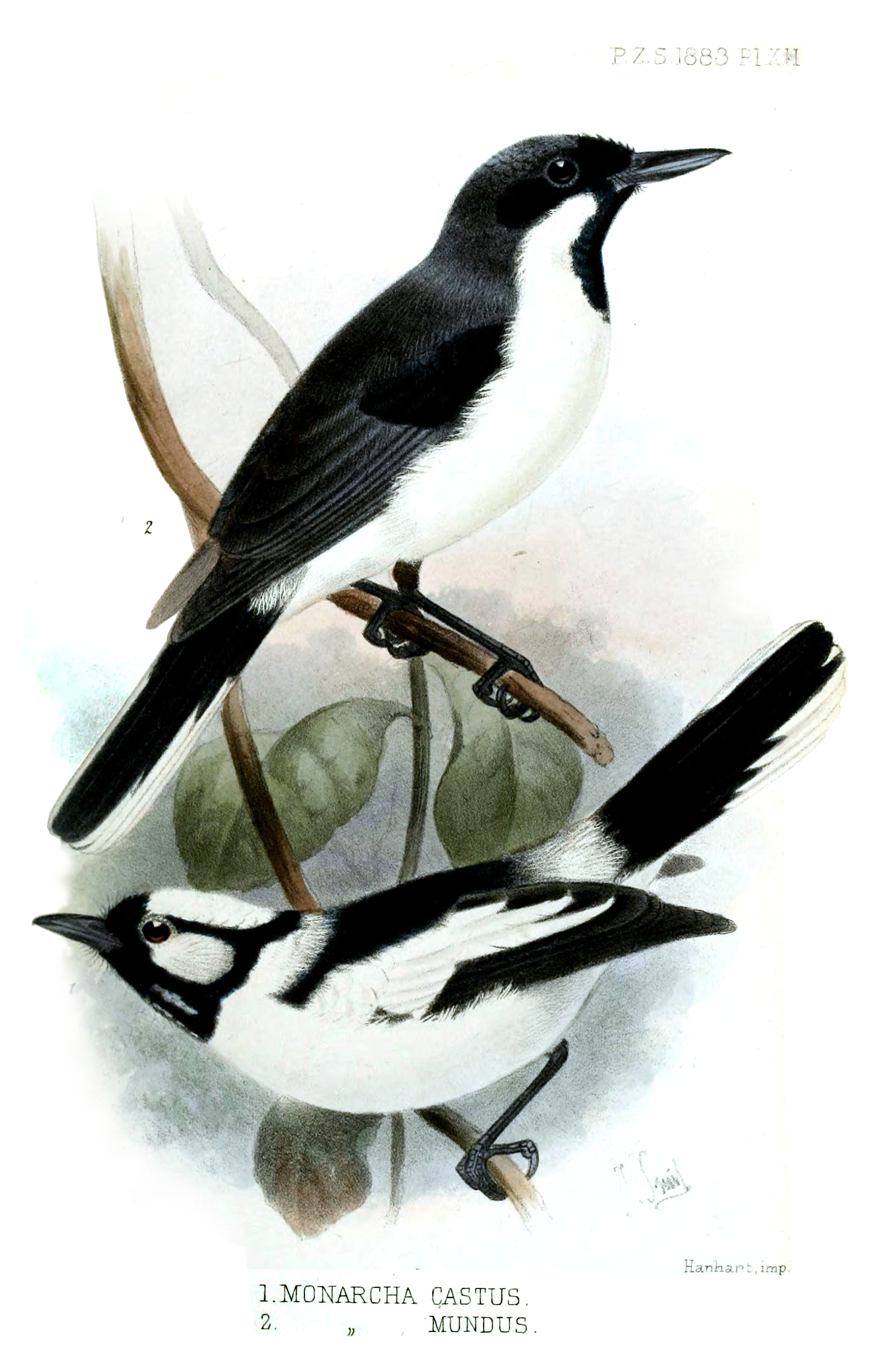 Black-bibbed Monarch (above), Loetoe Monarch (below)